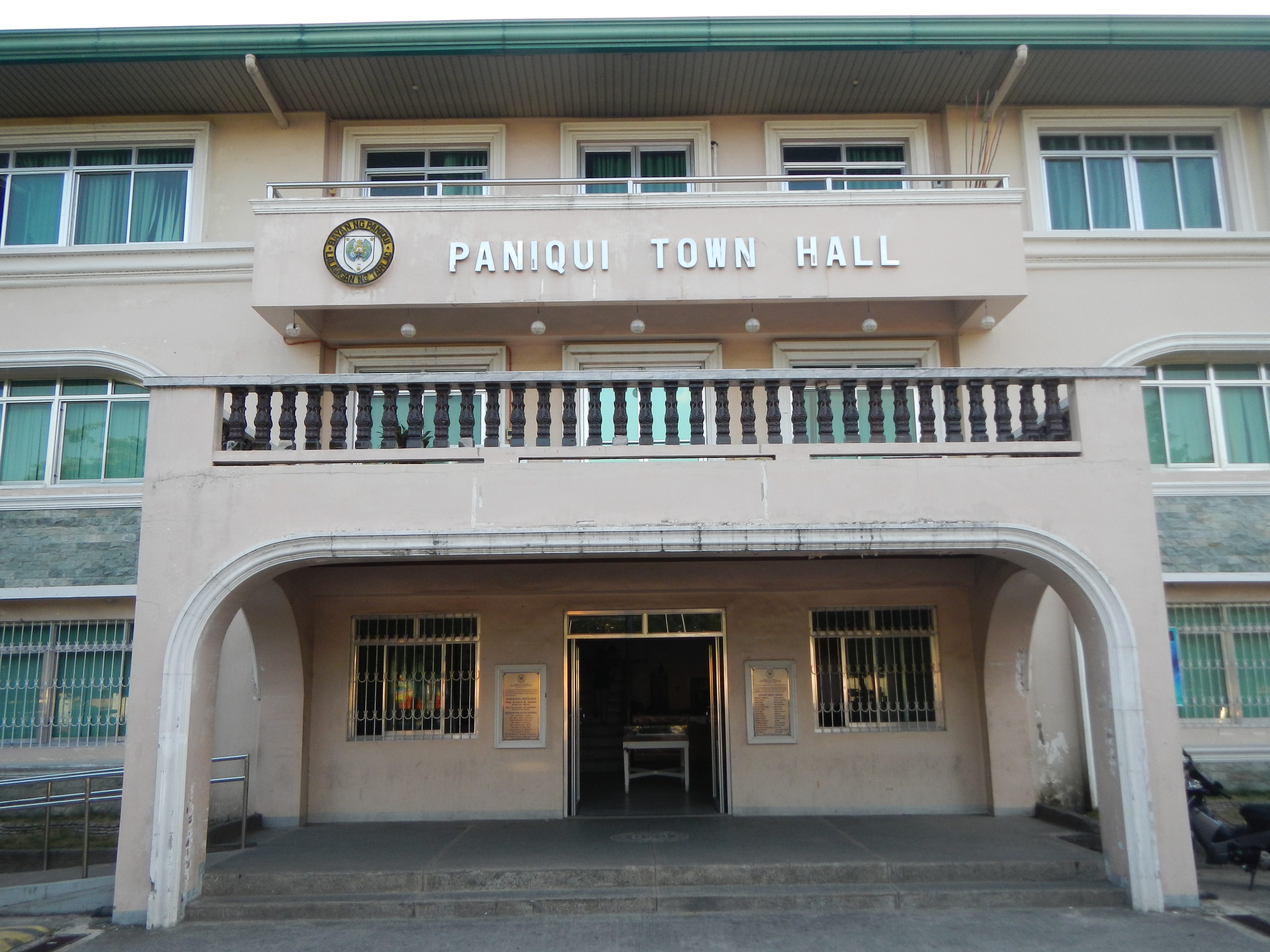 Paniqui, Tarlac[1] is a first class municipality in the province of Tarlac, Philippines. According to the 2010 census, it has a population of 87,730 people. Geographically, Paniqui is situated between the towns of Gerona in the south and Moncada in the north. Paniqui came from the word "paniki" which means "bat" in Tagalog. The town has a feature of caves that house a population of bats. It is the birthplace of former President Corazon C. Aquino. Coordinates: 15°40'33"N 120°32'36"E[2]Land Area: 105.16 km² ZIP Code: 2307[3]The birth of Paniqui traces back to1712 when the provincial government of Pangasinan sent a group of men south of Bayambang, Pangasinan for the expansion of the Christian Faith. The pioneering group was led by two brothers, Raymundo and Manuel Paragas of Dagupan and established the Local Government in a sitio called “manggang marikit” (mango of an unmarried woman) now a part of Guimba, Nueva Ecija. ::Surprisingly in this sitio, they saw an extraordinary number of flying mammals called “pampaniki” by Ilocanos. This is where the name Paniqui was derived from.[4]This place is situated in Tarlac, Region 3, Philippines, its geographical coordinates are 15° 40' 8" North, 120° 34' 50" East and its original name (with diacritics) is Paniqui.[5]PANIQUI: CITADEL OF ANTIQUITY[6]